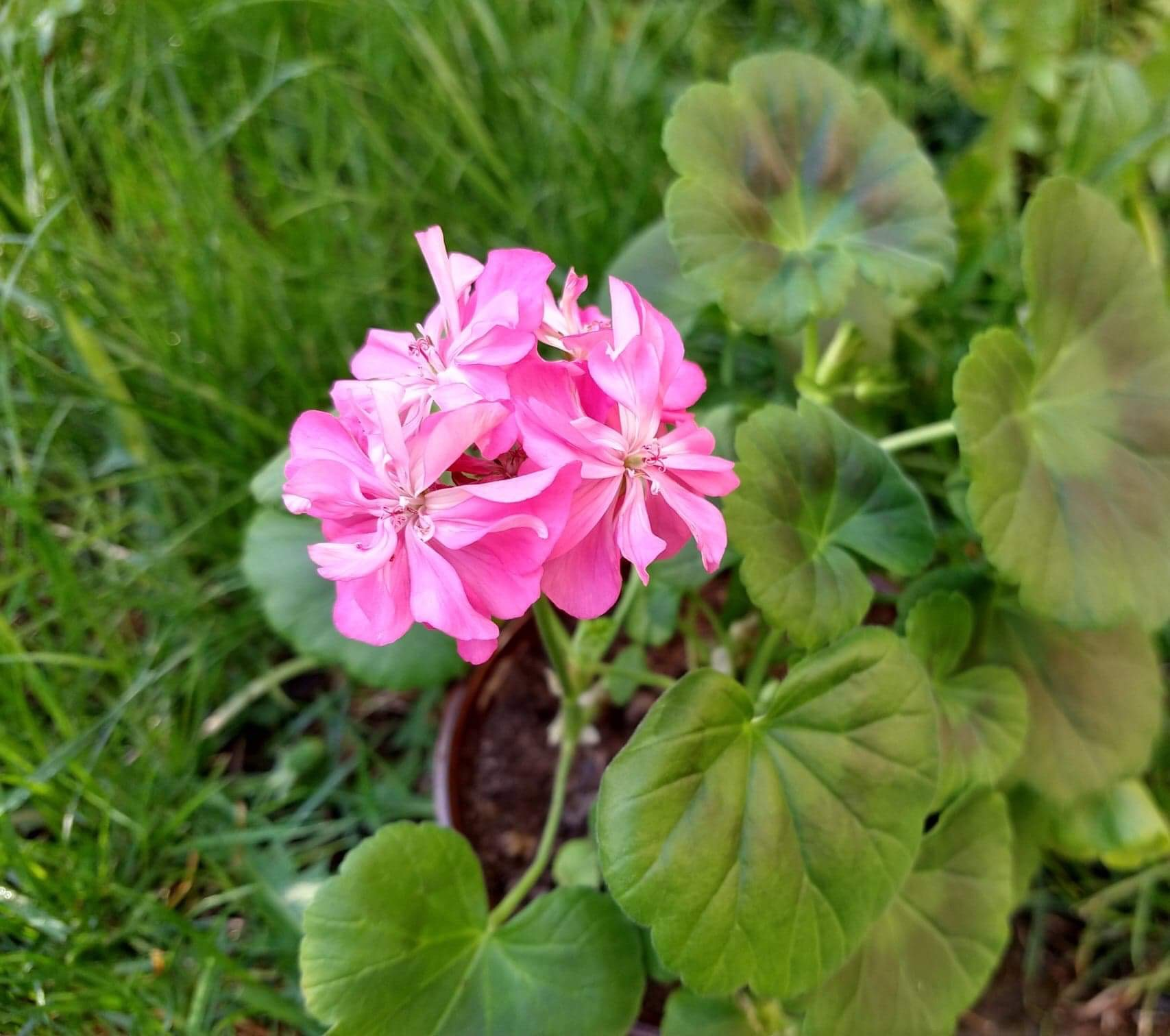 Pelargonium Maria Dangel